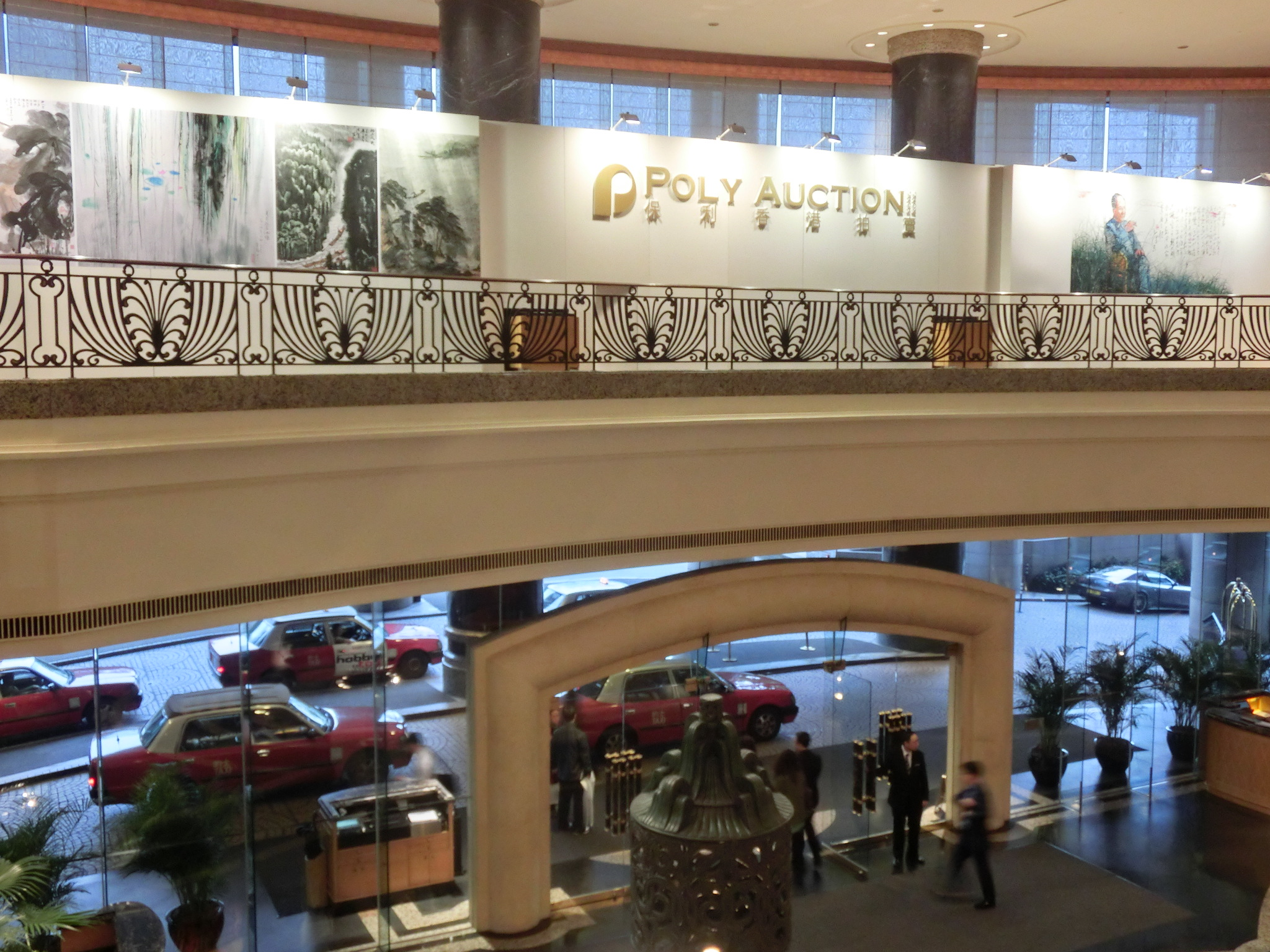 China Poly Group Corporation, 保利集團, Auction pre-view exhibition in Grand Hyatt Hotel, Wan Chai North, Hong Kong